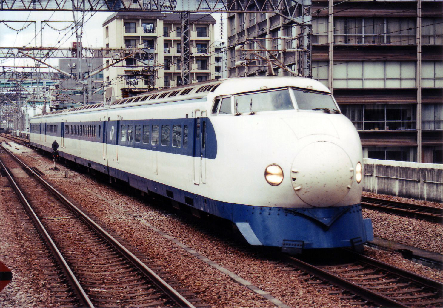 JR West 0 series 4-car set Q4 approaching Hakata Station on a Sanyo Shinkansen Kodama service